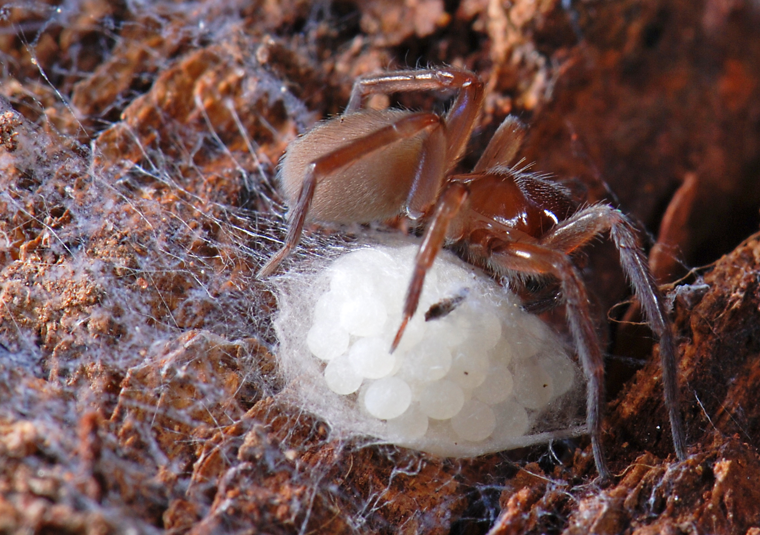 Pimus leucus, female with eggsac. Found under downed log in mixed conifer forest of northern CA. Note the beautiful blueish cribellate silk.